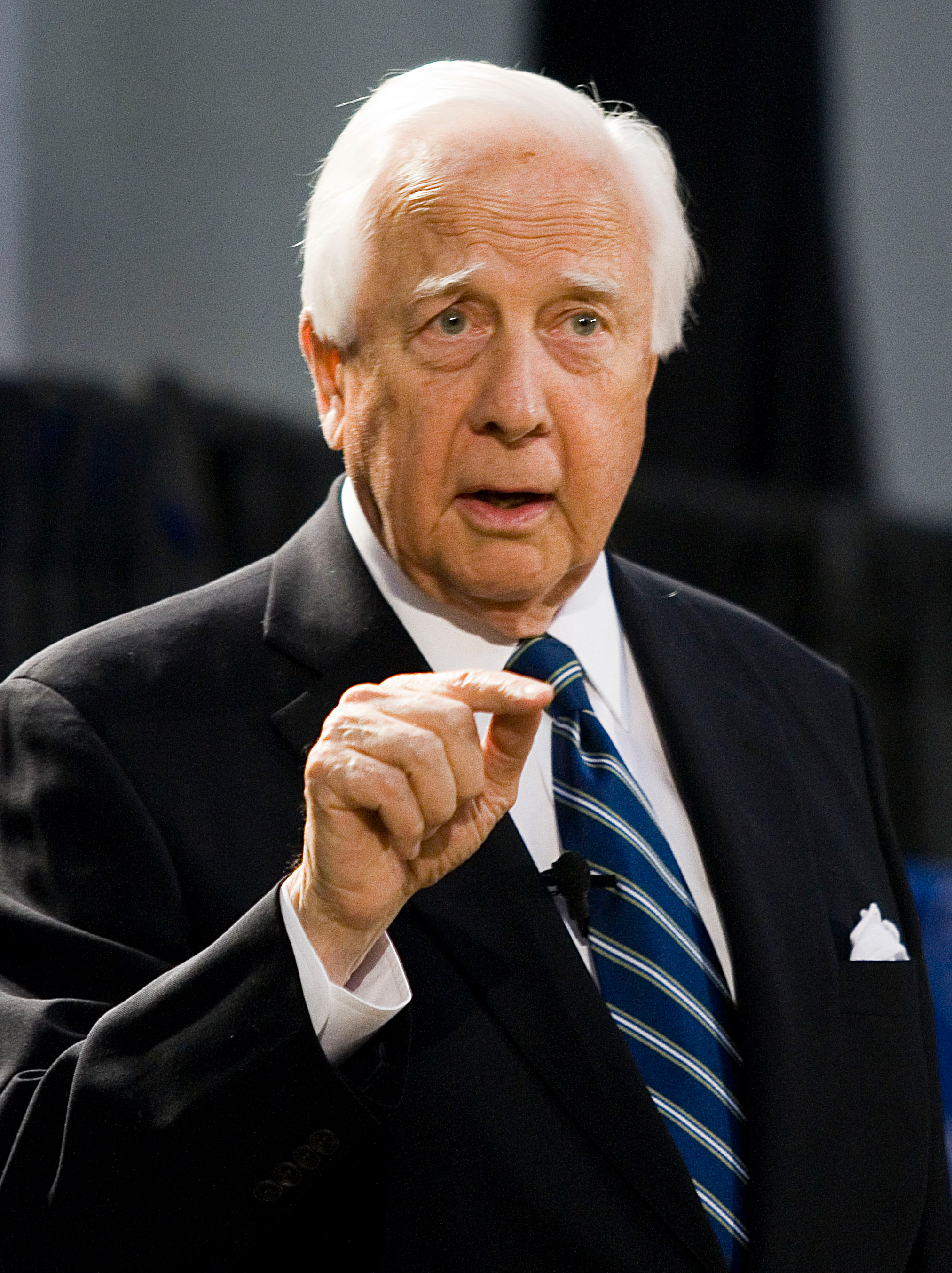 David McCullough speaking at Emory University.